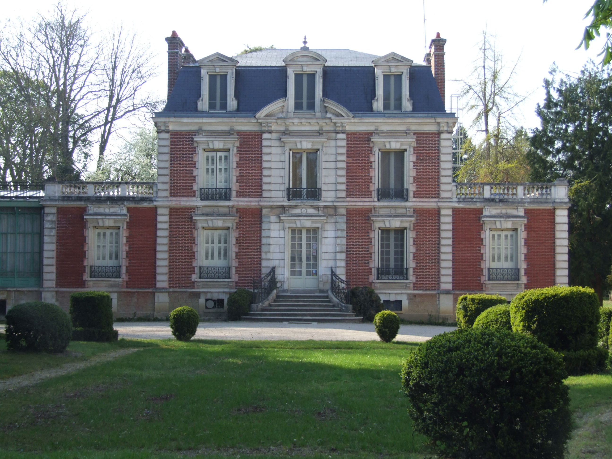 Auxerre, Burgundy, FRANCE